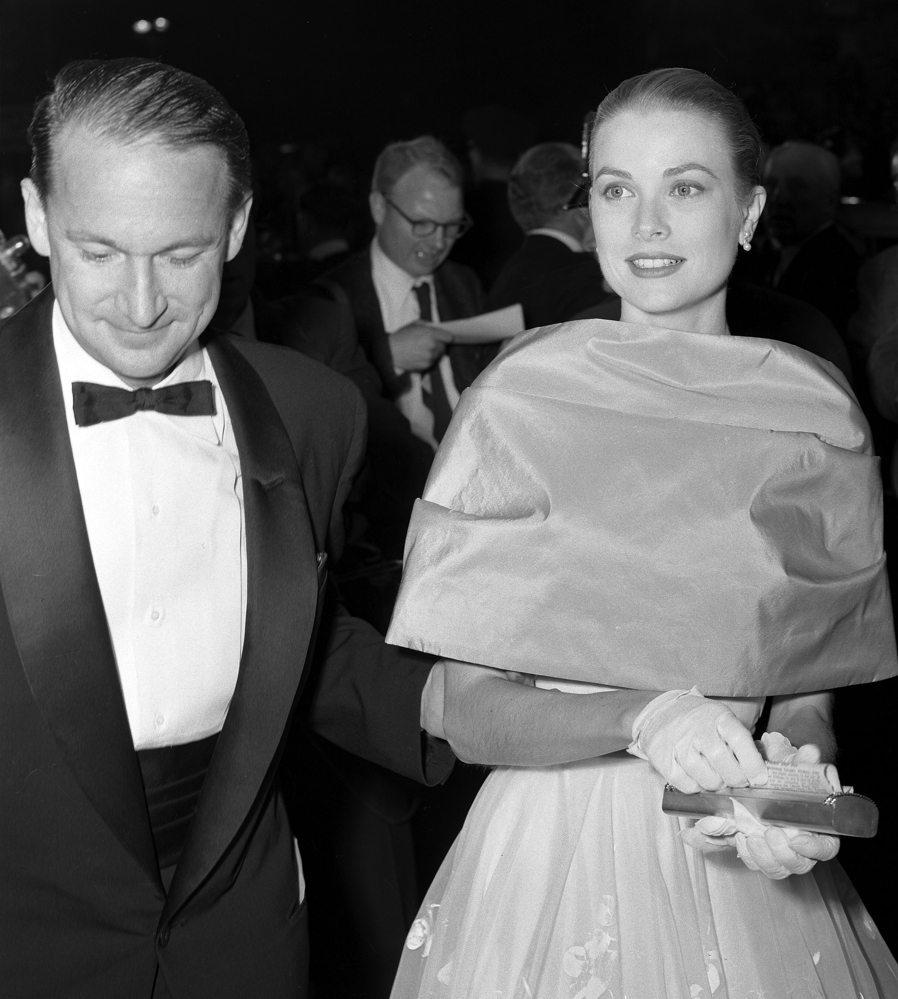 Actress Grace Kelly arriving at the 28th annual Academy Awards, 1956.